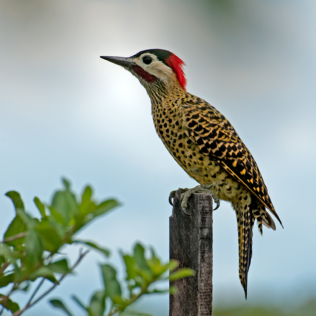 A Green-barred Woodpecker in Bataguassu, Mato Grosso do Sul, Brazil.